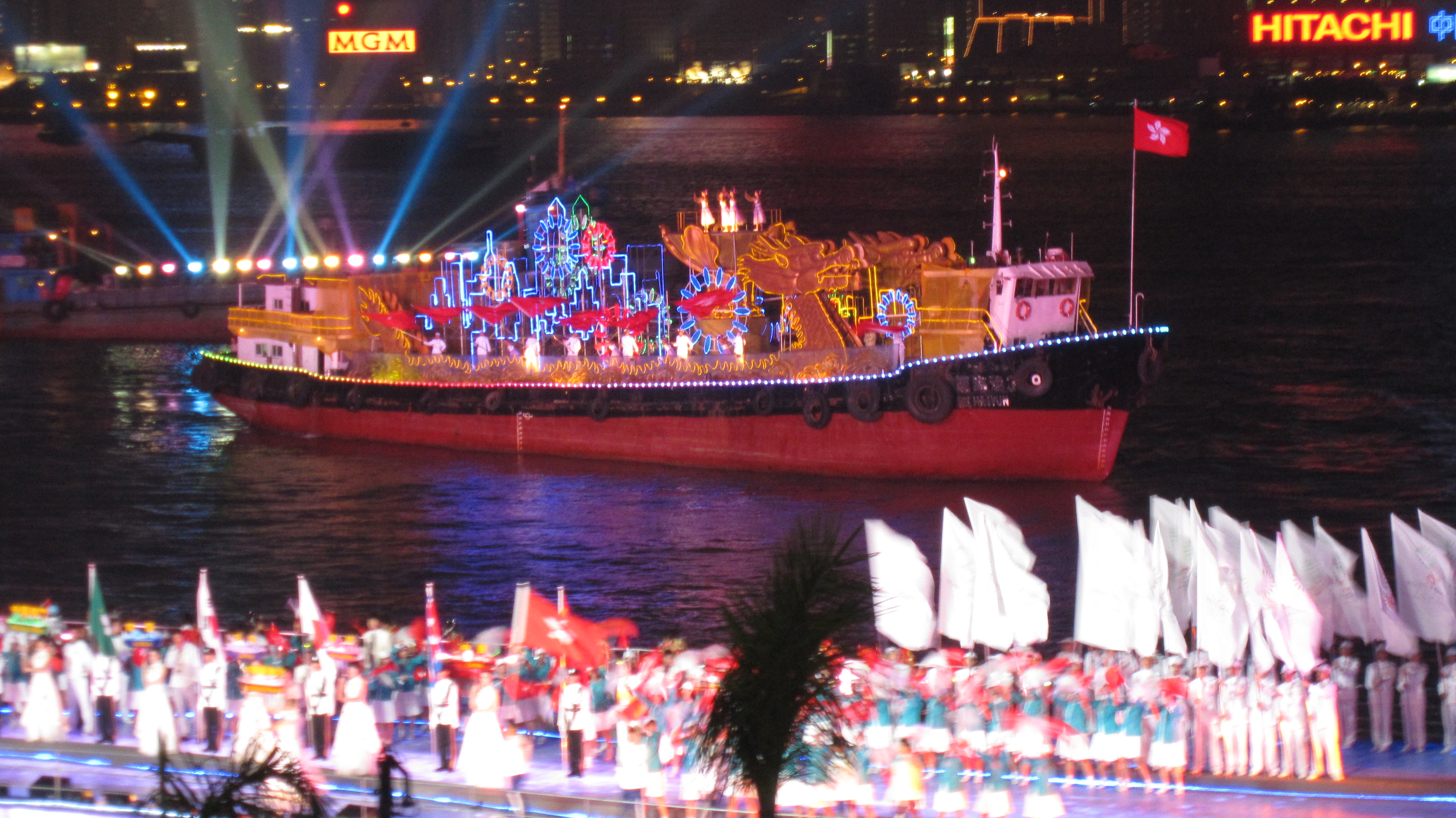 2009 East Asian Games Opening Ceremony